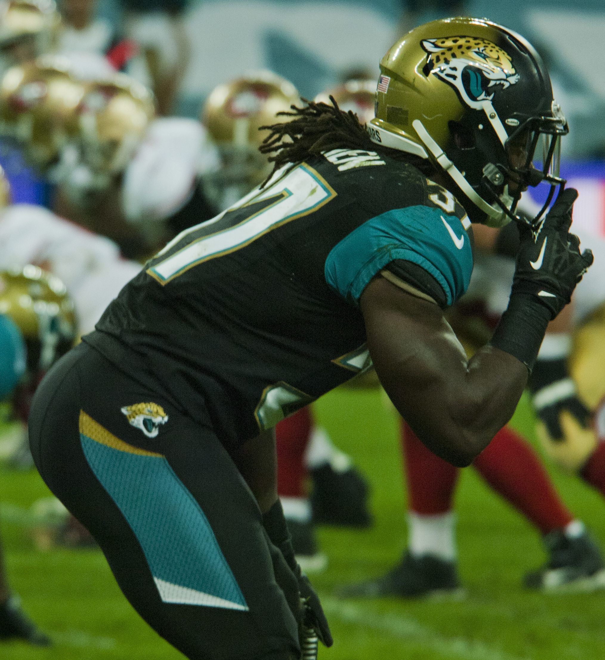 Jacksonville Jaguars safety Johnathan Cyprien takes his position on the line of scrimmage, during the Jaguars’ NFL International Series game against the San Francisco 49ers at Wembley Stadium, London. Jacksonville lost the game 42-10. Airmen from Royal Air Force Lakenheath took part in the pregame ceremony, presenting large U.S. and U.K. flags.